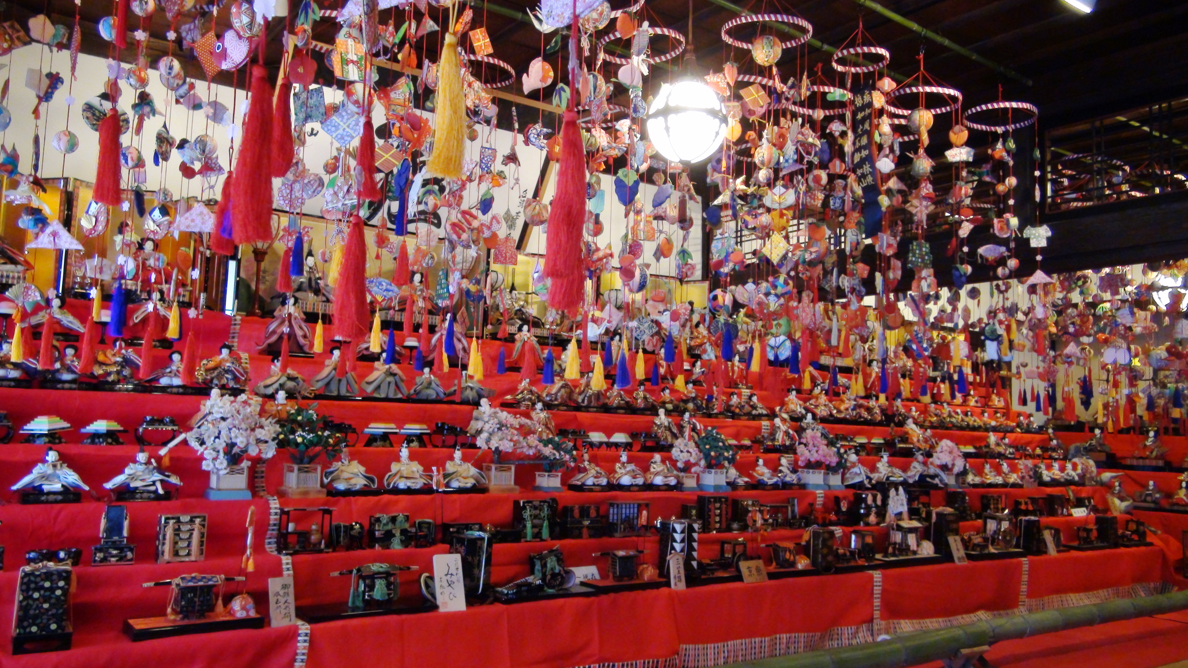 Tsurushibina,is a variation of traditional Hina-Ningyou dolls in Japan. Kanzo-Yashiki.Koshu City, Yamanashi Prefecture.